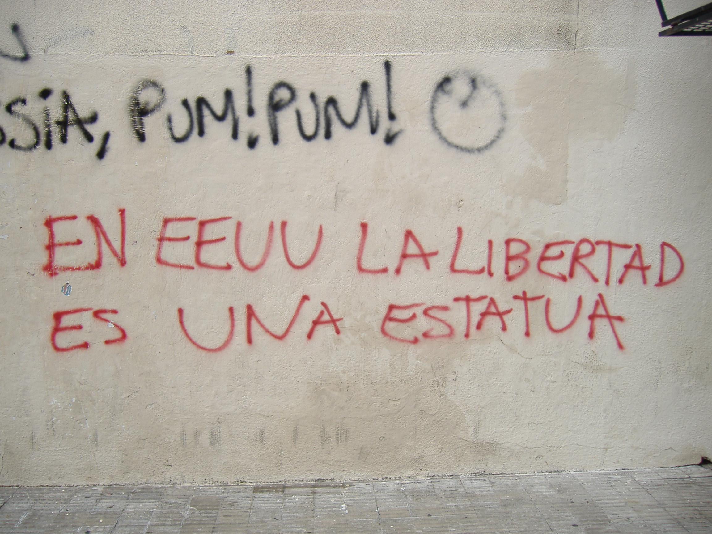 A spray-paint graffiti in downtown Rosario, Argentina. It reads "EN EEUU LA LIBERTAD ES UNA ESTATUA", that is, "IN THE U.S. LIBERTY IS A STATUE". This picture was taken by Pablo D. Flores on 3 March 2006.